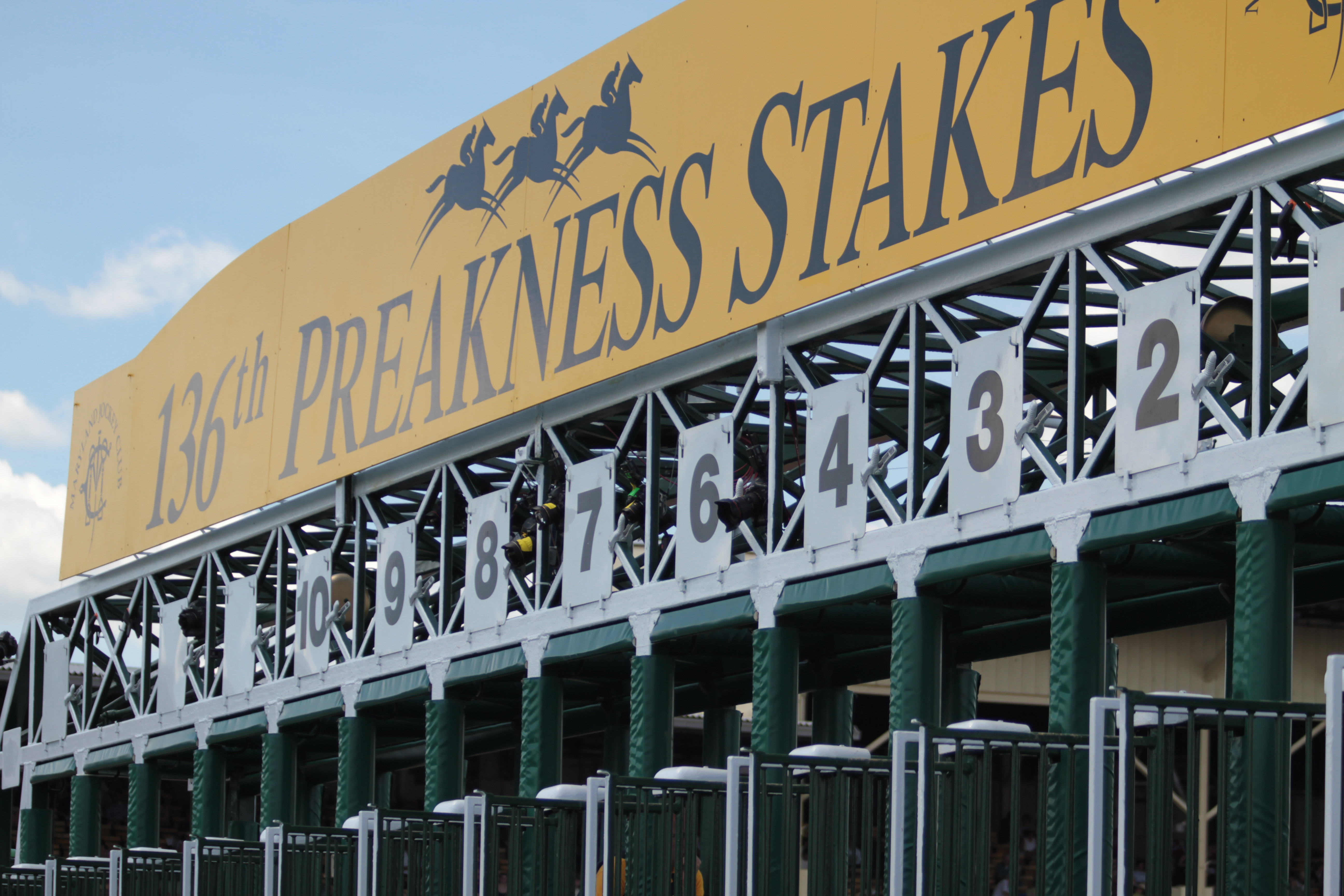 Preakness starting gate at Pimlico in May 2011.